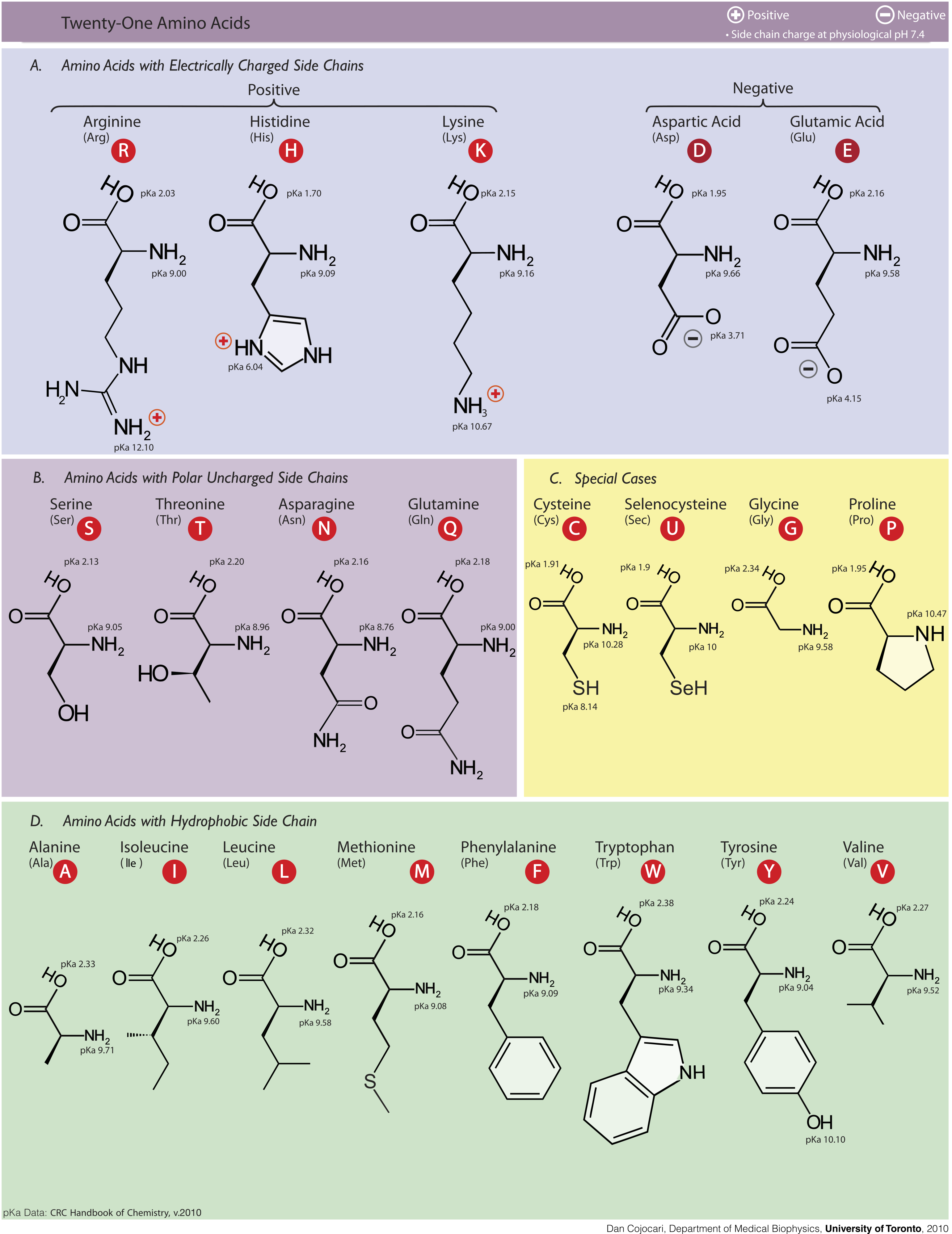 List of amino acid structures, nomenclatureand pKa of the side groups